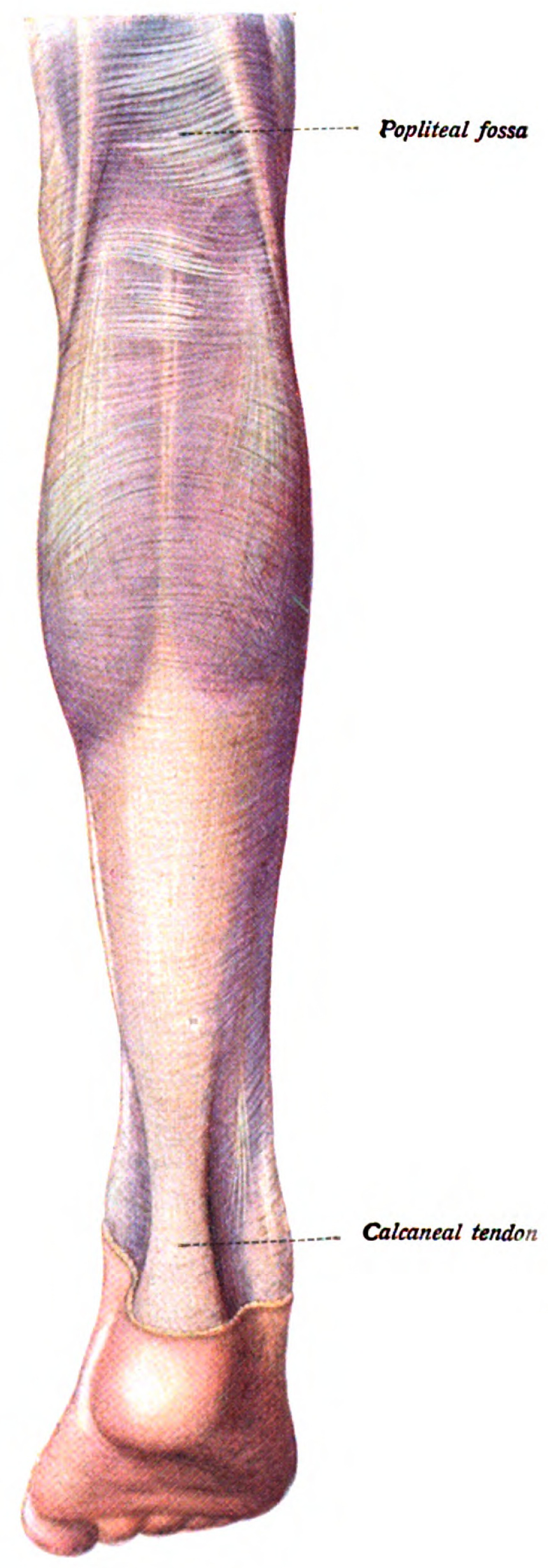 An anatomical illustration from the 1909 edition of Sobotta's Atlas and Text-book of Human Anatomy with English terminology.